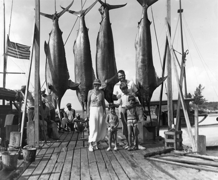 American author Ernest Hemingway with Pauline, Gregory, John, and Patrick Hemingway and four marlins on the dock in Bimini, 20 July 1935.